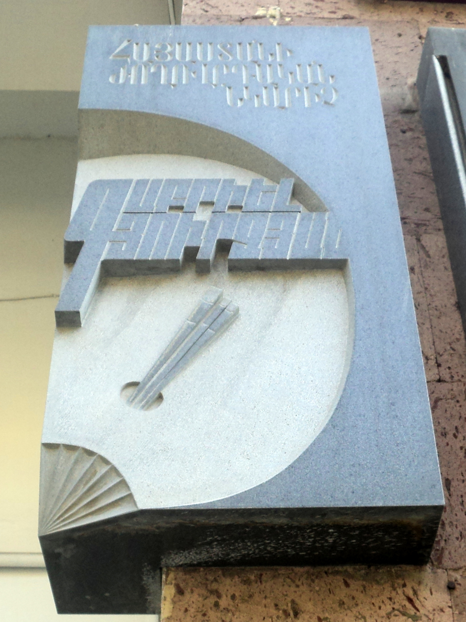 Գաբրիել Գյուրջյանի հուշատախտակը Աբովյան 32 շենքի պատին